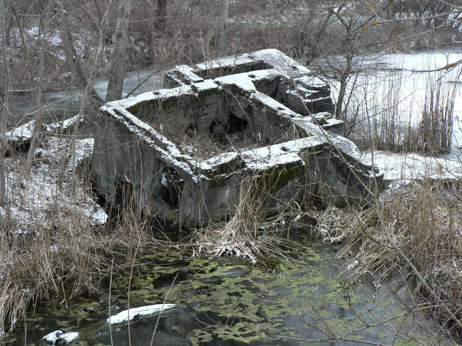 Ismeretlen eredetű épületrom a Kornéli-tó déli részében